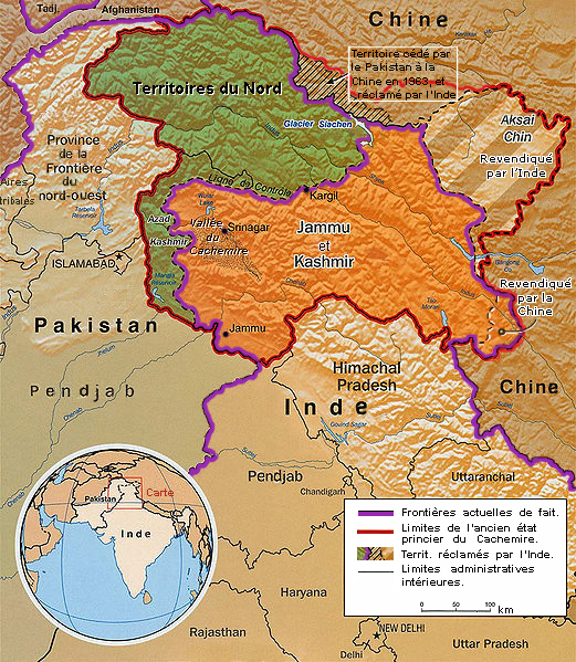 Translated in french from CIA World Factbook: "The Disputed Territory : Shown in green is Kashmiri region under Pakistani control. The dark-brown region represents Indian-controlled Jammu and Kashmir while the Aksai Chin is under Chinese occupation." Library of Congress, Geography and Map Division, Washington, D.C. 20540-4650 USA. Info from its archive page [1] for the map "Kashmir region" of the [Washington : Central Intelligence Agency, 2003] NOTES "763537AI (R00744) 5-03." Scale [ca. 1:510,000]. CALL NUMBER G7653.J3 2003 .U51 DIGITAL ID g7653j ct001059